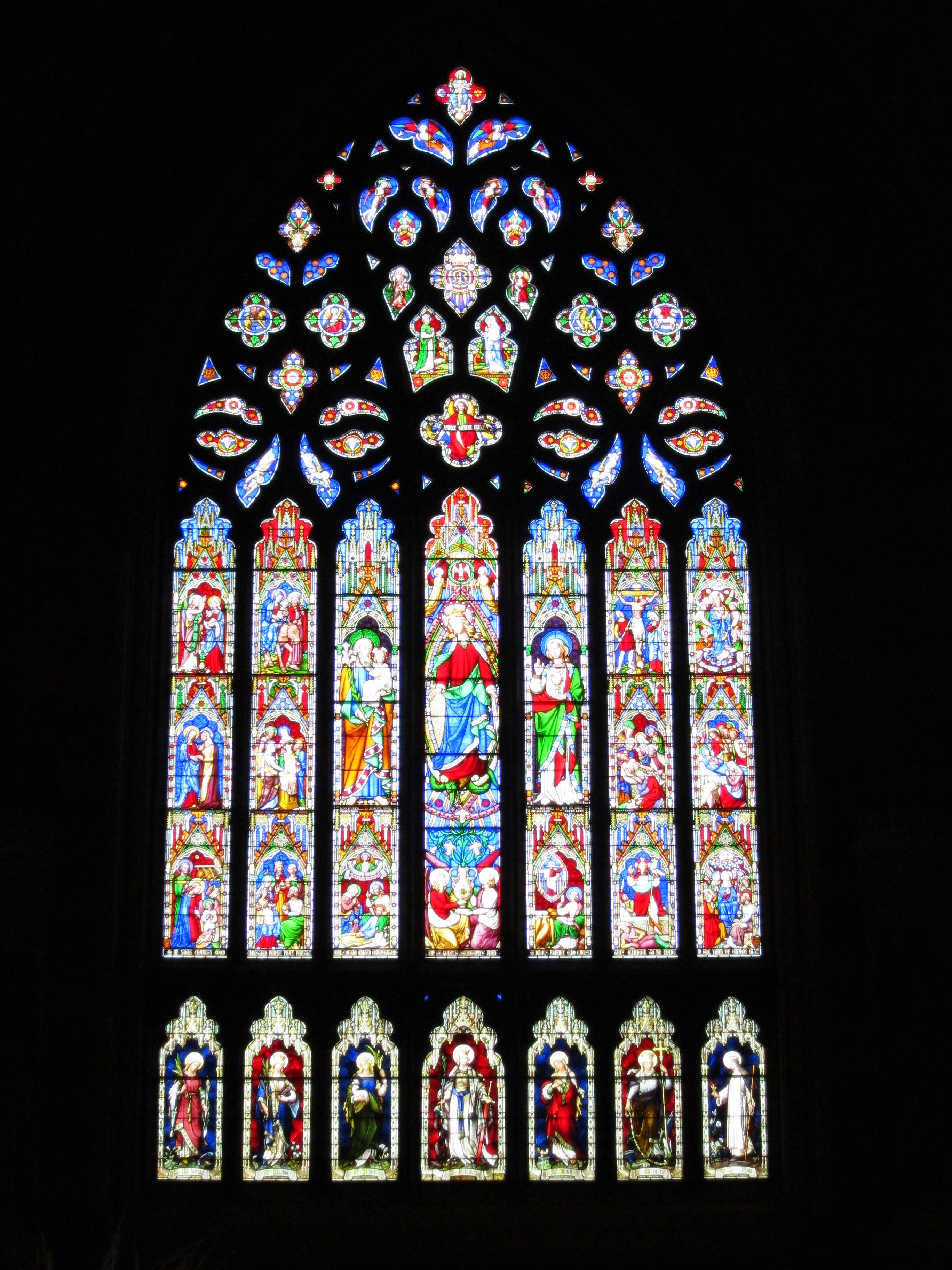 Cathedral of the Immaculate Conception (Albany, New York) - interior, stained glass window depicting the life of the Blessed Virgin Mary